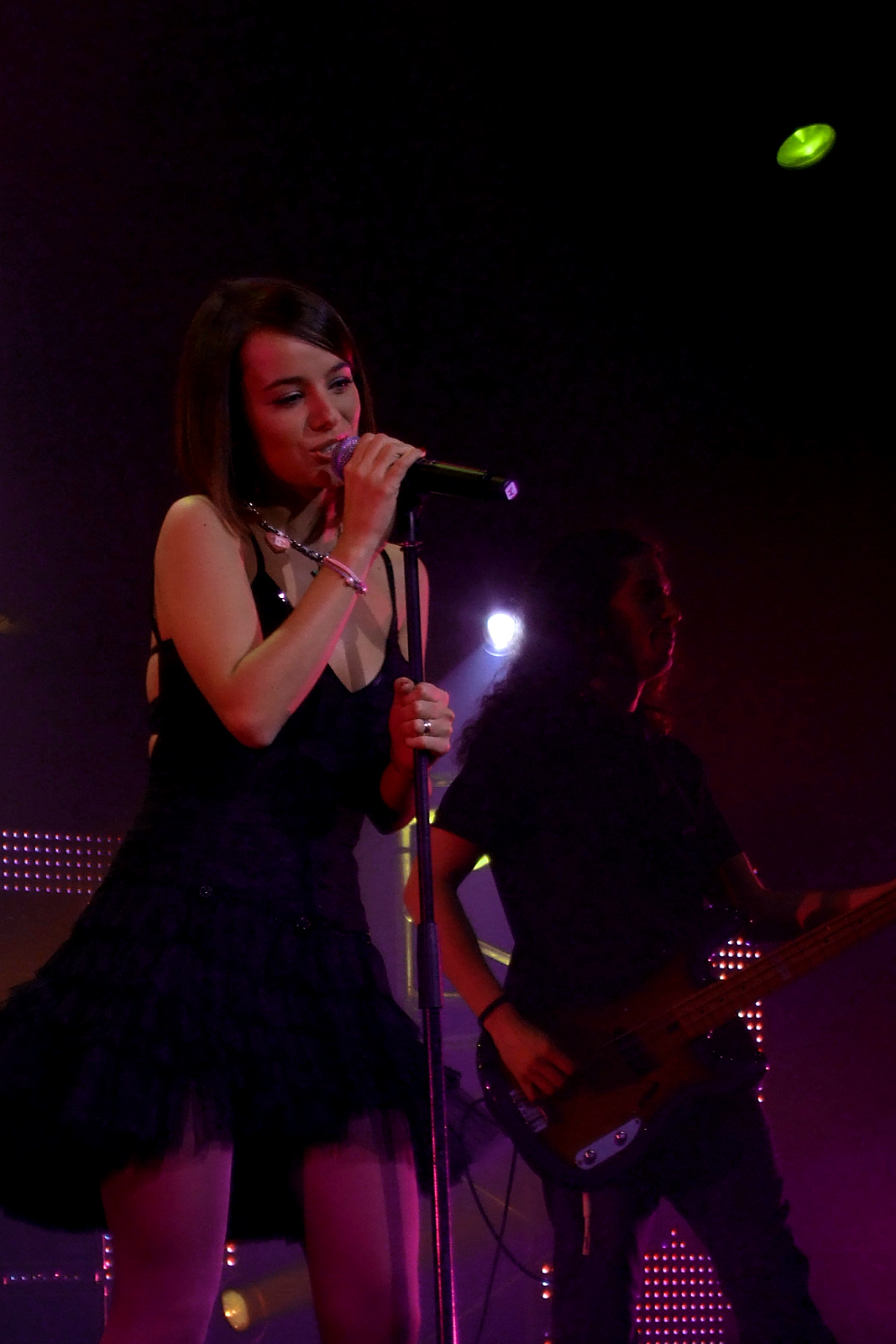 Alizée and her bassist at VIP W9 LIVE concert that was hold in Strasbourg, France, on 9th of January, 2008.